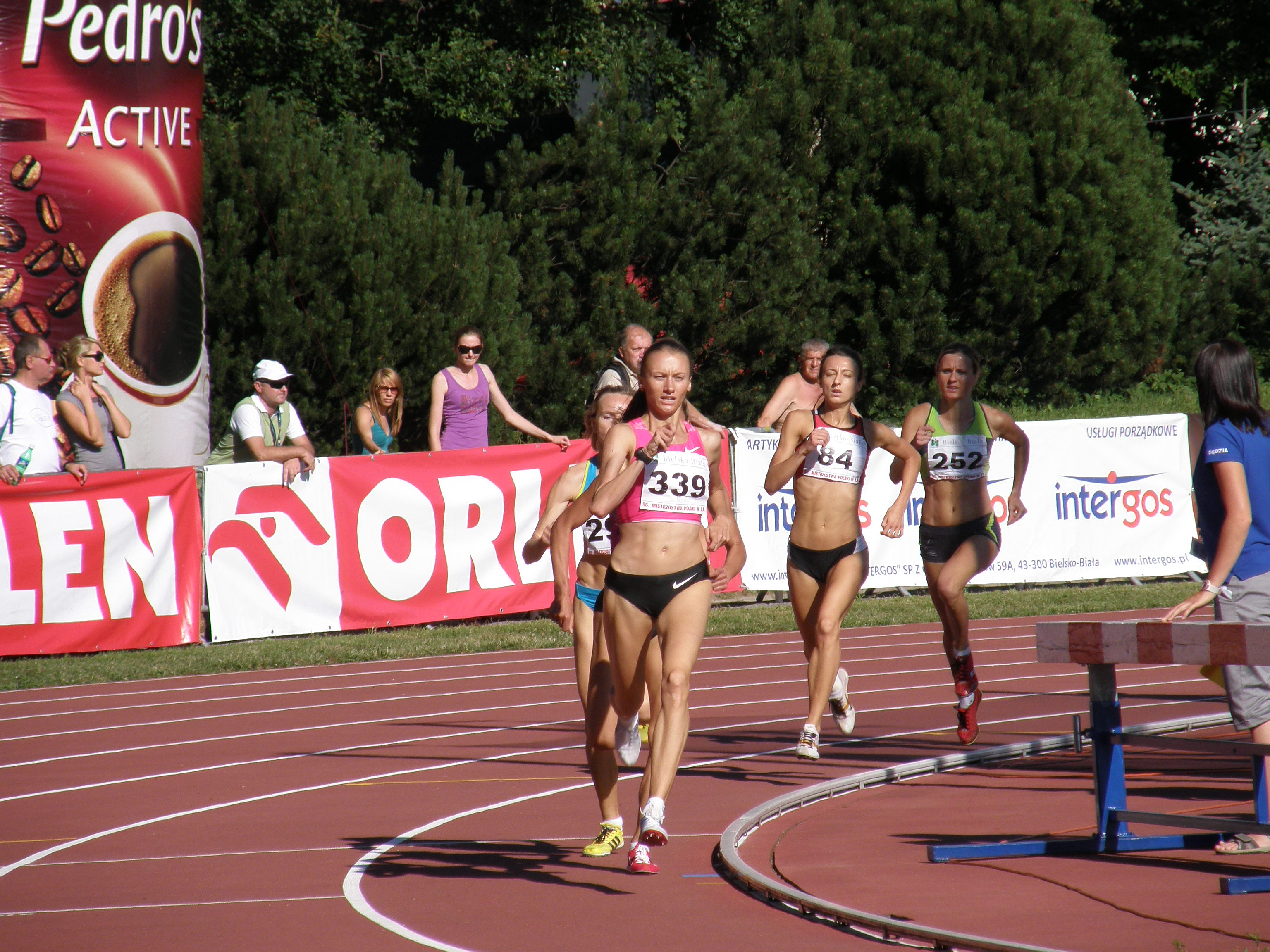 Renata Pliś - 2010 Polish Championships in Athletics (Bielsko-Biała)